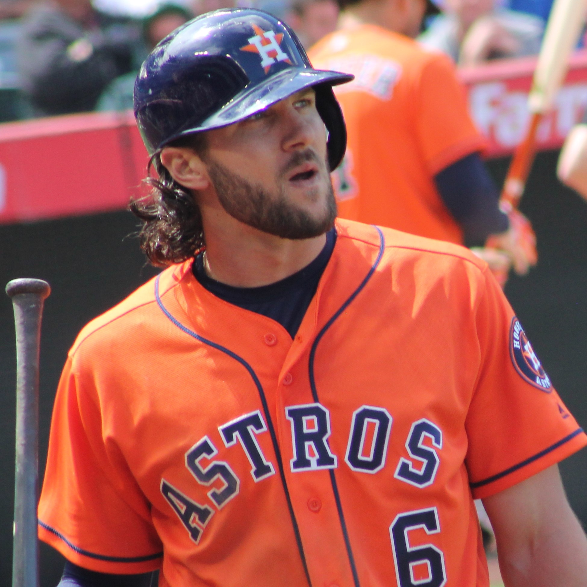 Professional baseball player Jake Marisnick during a game in Anaheim in May 2017.